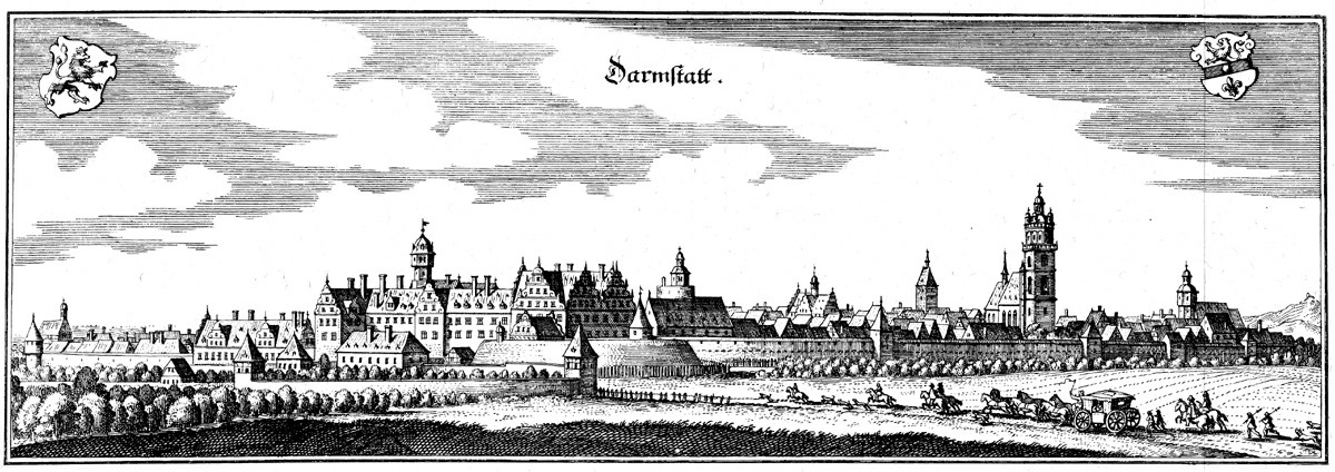 This is a scan of the historical document: Title: Darmstadt - Topographia Hassiae language: german